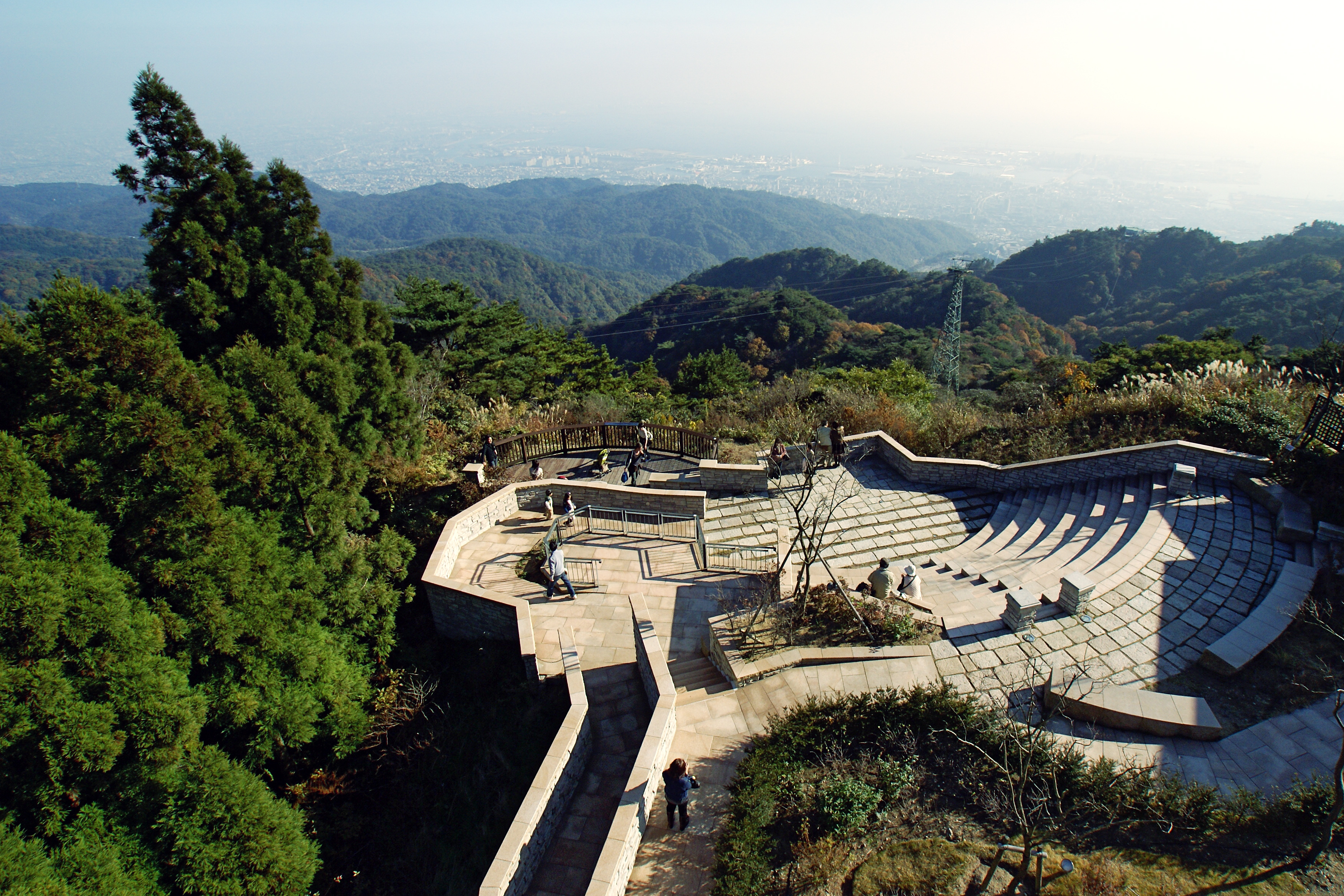 Rokko Garden Terrace in Kobe, Hyogo prefecture, Japan